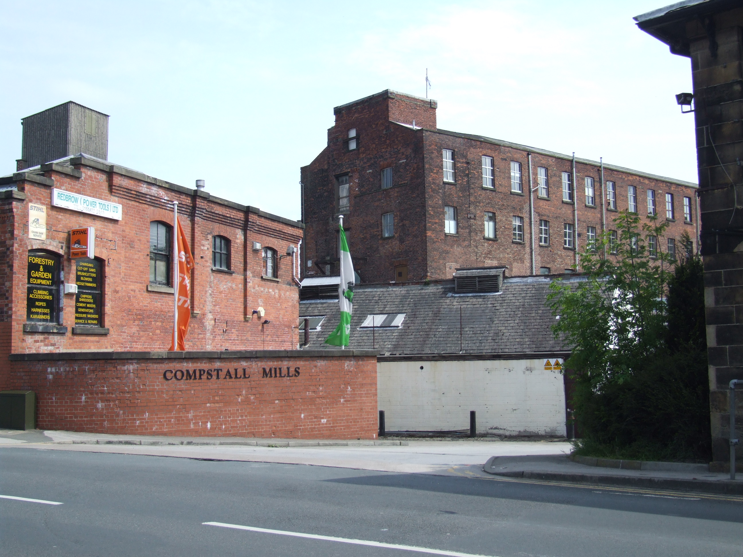 Compstall is a village in near Marple in Greater Manchester.Compstall Mills were built in the 1820s by George Andrew I & II, who then extended the village to house their workers. It is now a conservation area.